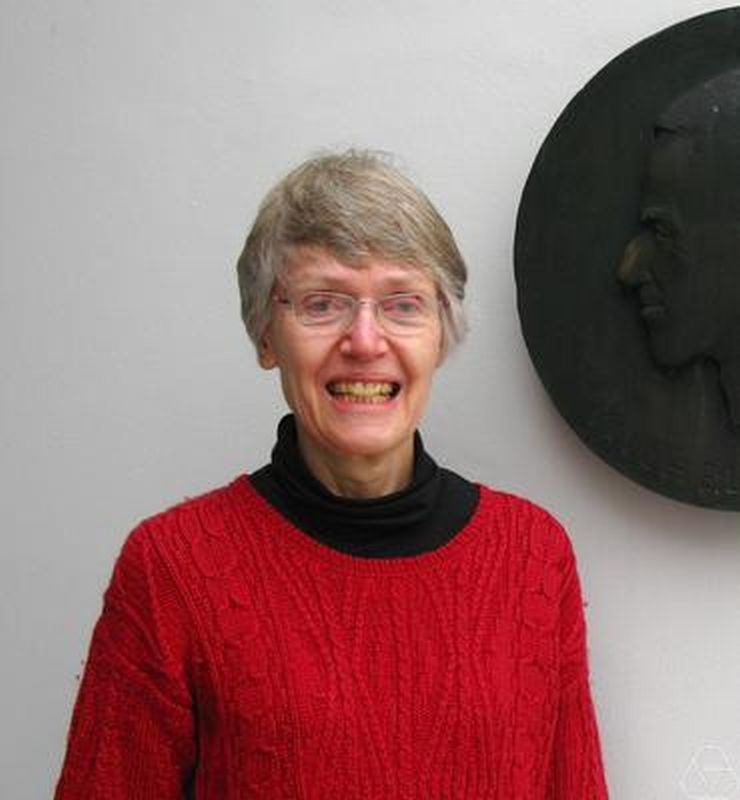 Julia Knight, Oberwolfach 2012